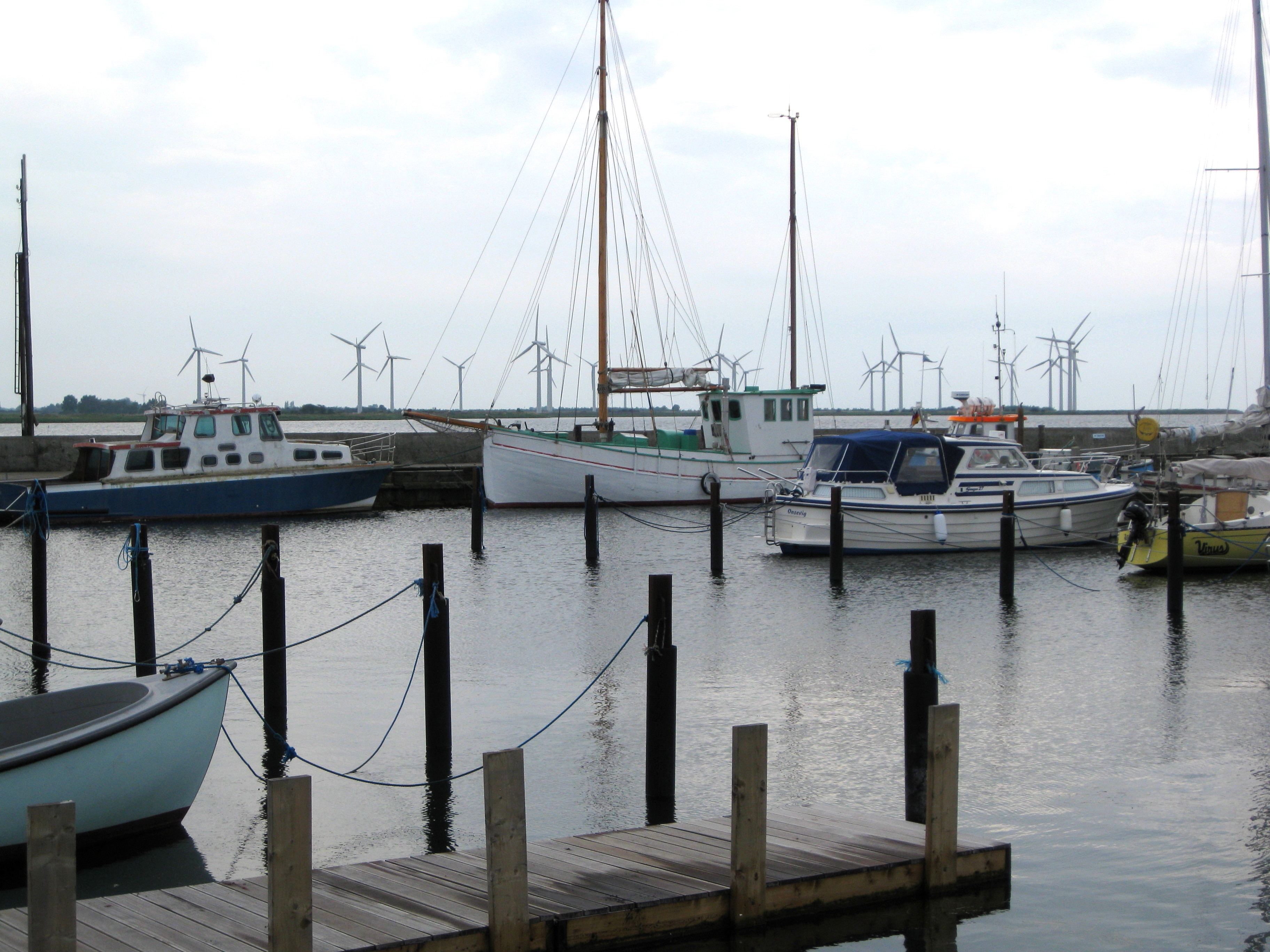 The small habour of "Onsevig" located on the island Lolland in east Denmark.